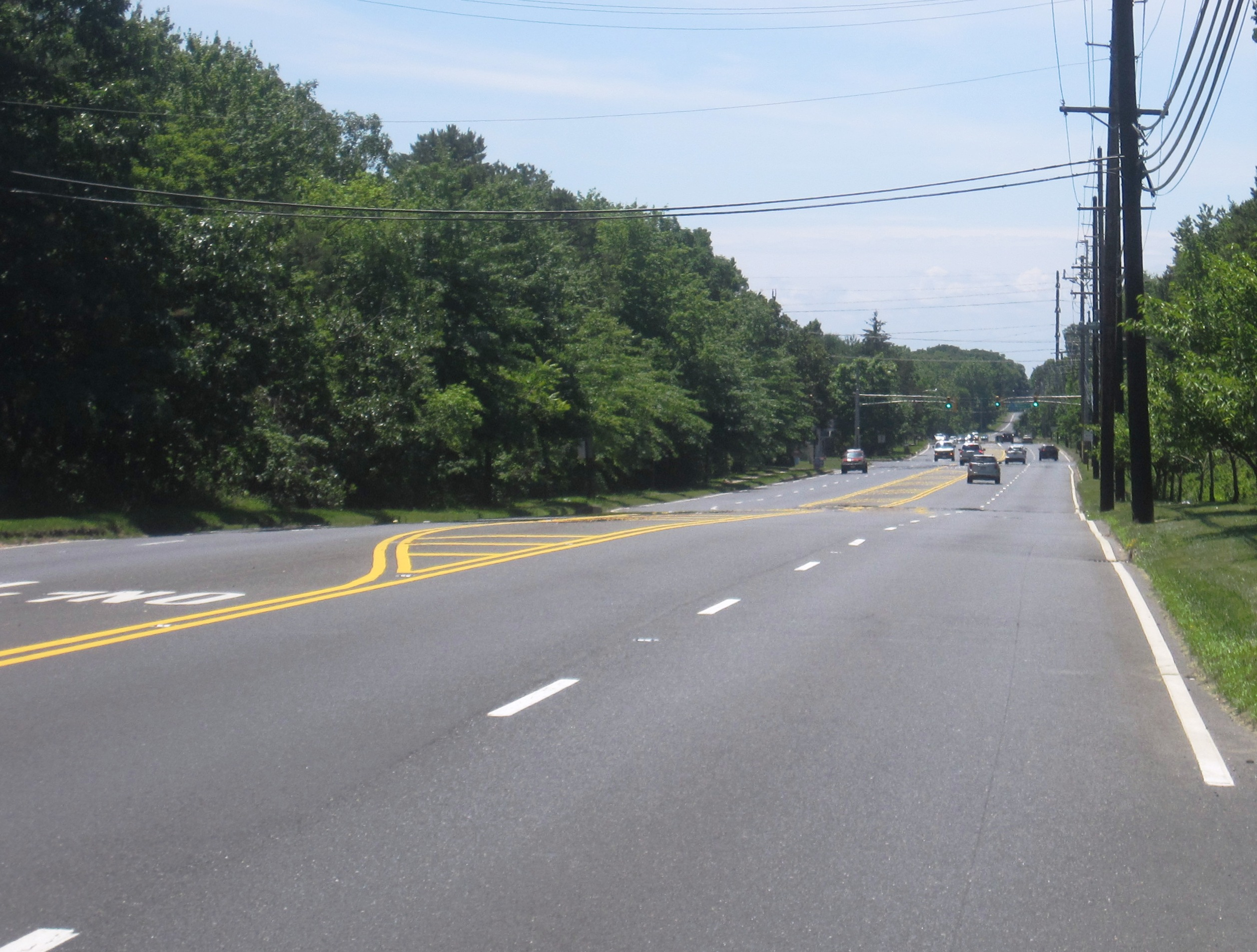 Photograph showing southbound County Route 547 (Shafto Road) approaching CR 16 (Asbury Road) in Tinton Falls, New Jersey.